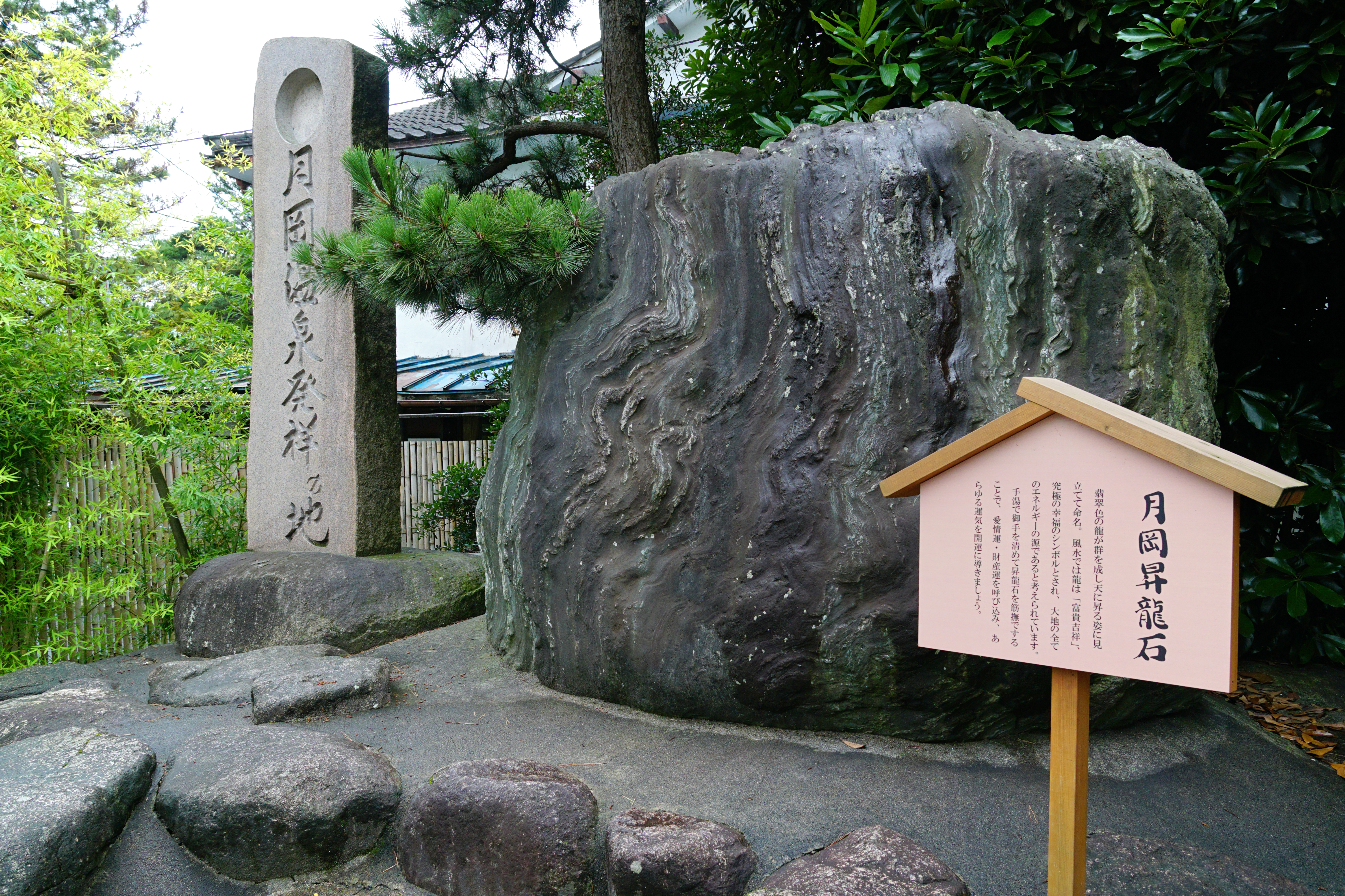 At Tsukioka_Onsen in Shibata, Niigata prefecture, Japan.